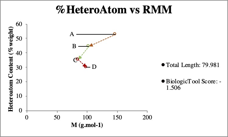 An example of BiologicTool plots as developed by Lie Y. et al. A is the starting material, B and C are intermediates and D the product, Colors on the arrow represent the yields from excellent (clear green) to poor (red).